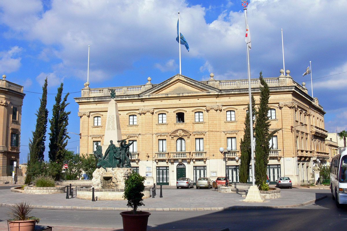 Misraħ tal-Madonna Medjatriċi, Ħaż-Żabbar, Malta